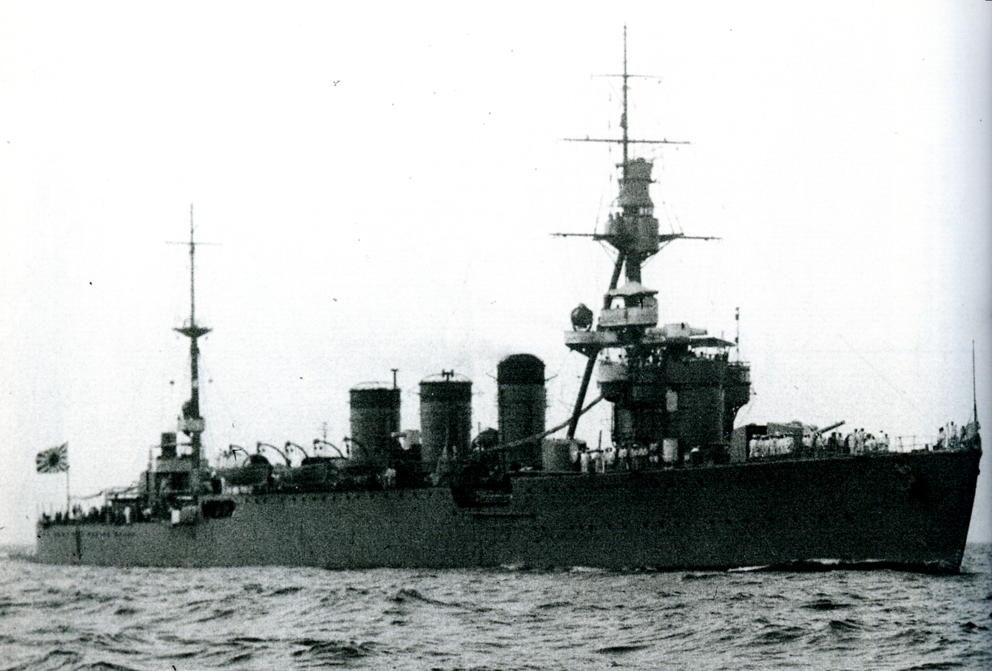 Japanese light cruiser Kitakami off of Sasebo in 1935.